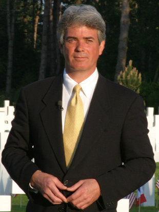 CNN Anchor/Reporter John RobertsWWII Omaha Beach American Cemetery - Normandy, France